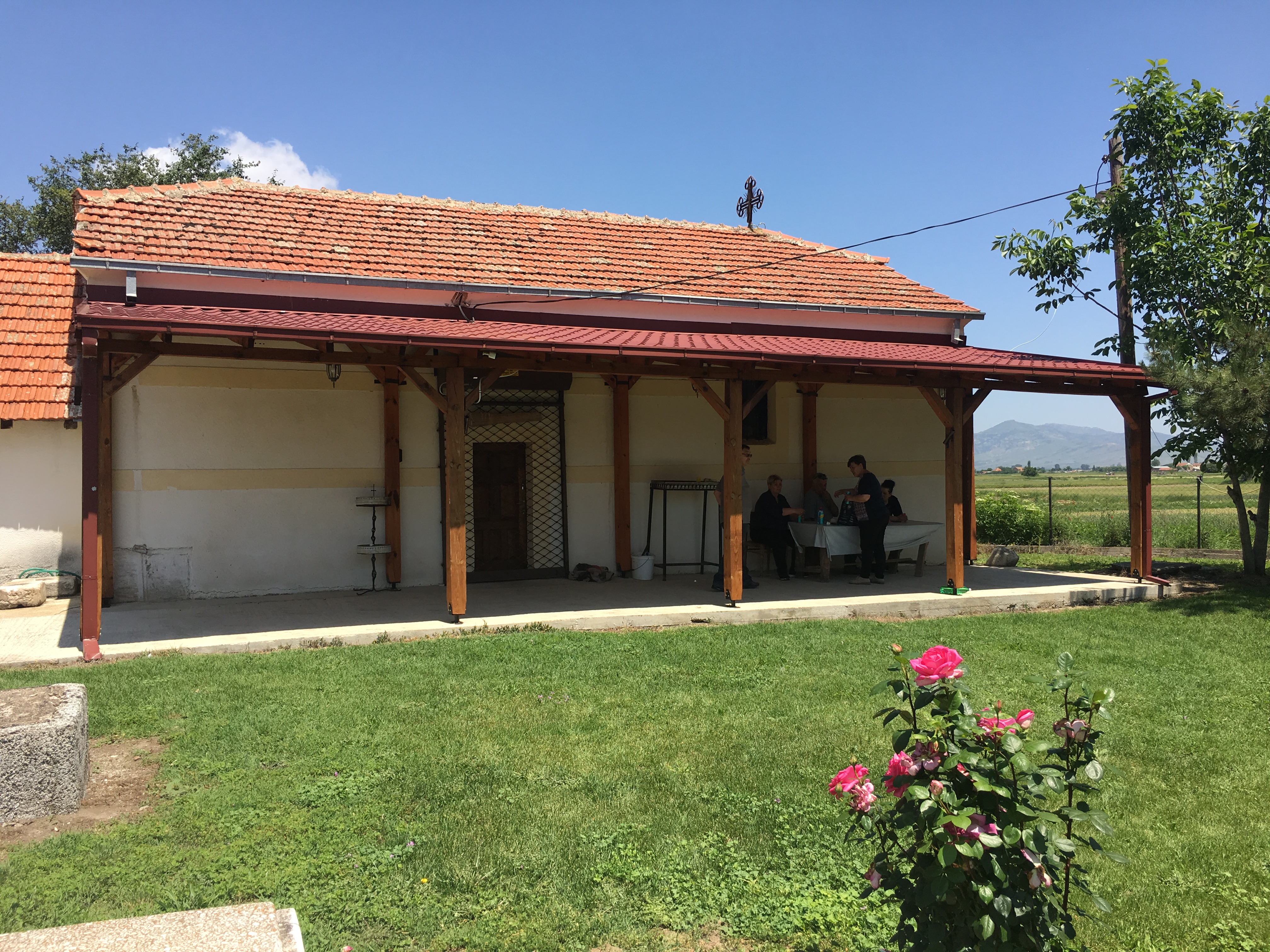 St. Petka Church in the village of Trap